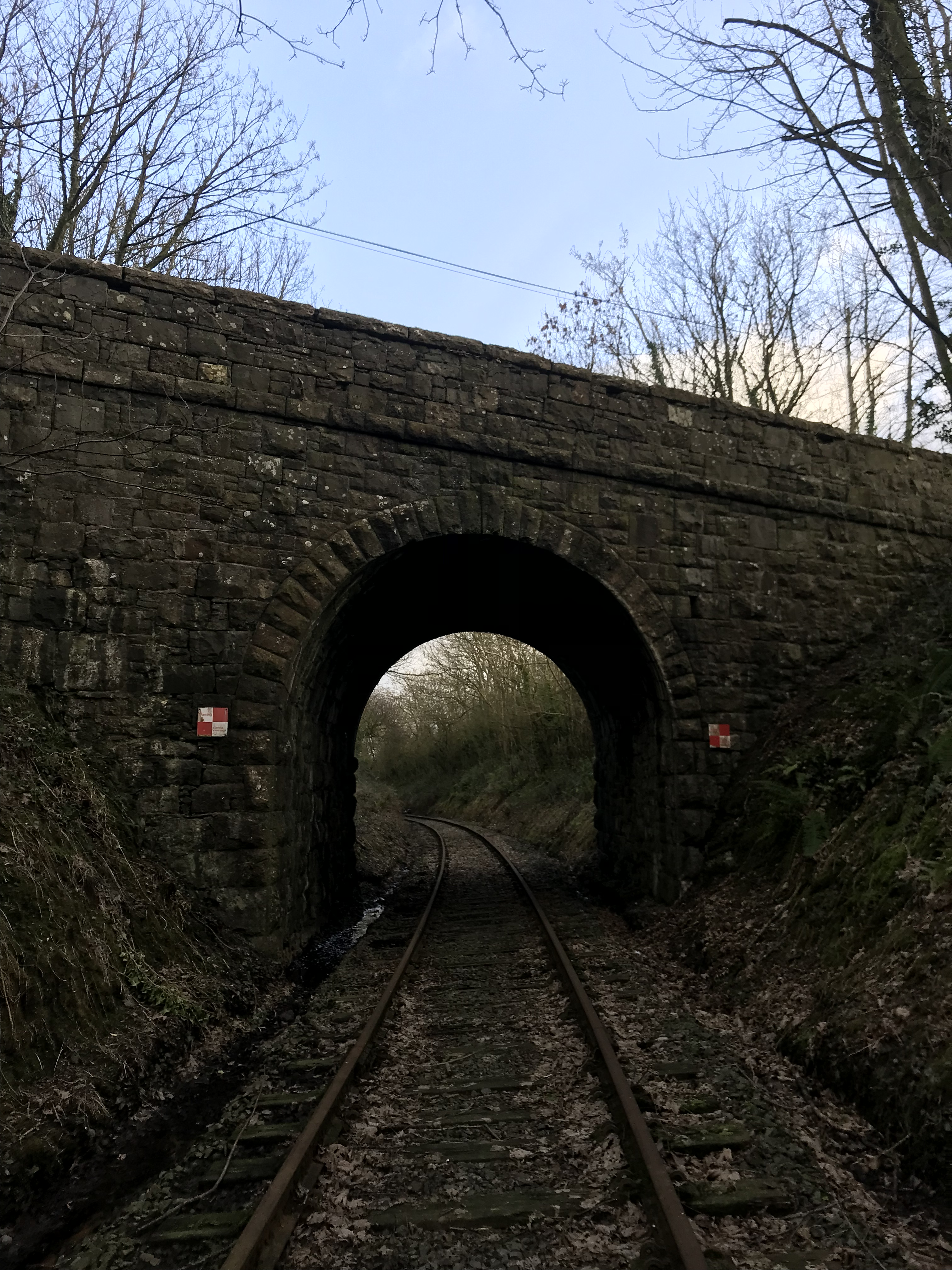 Picture of Llangwyllog bridge